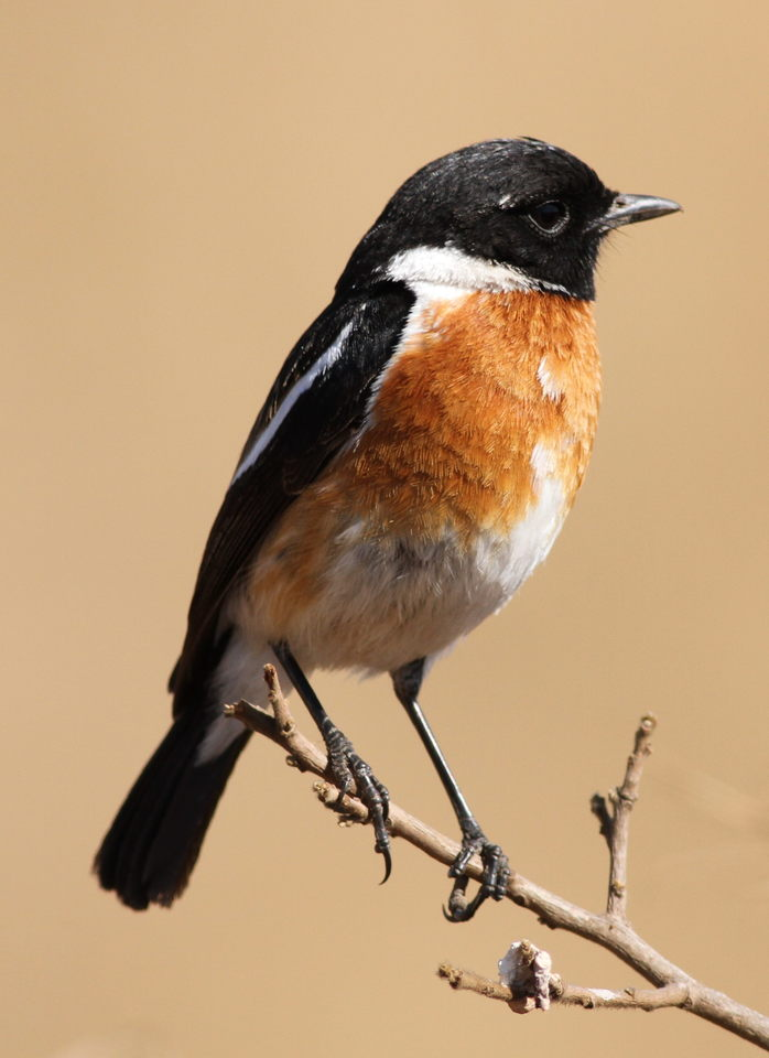 African Stonechat, Saxicola torquatus -- male -- at Rietvlei Nature Reserve, South Africa